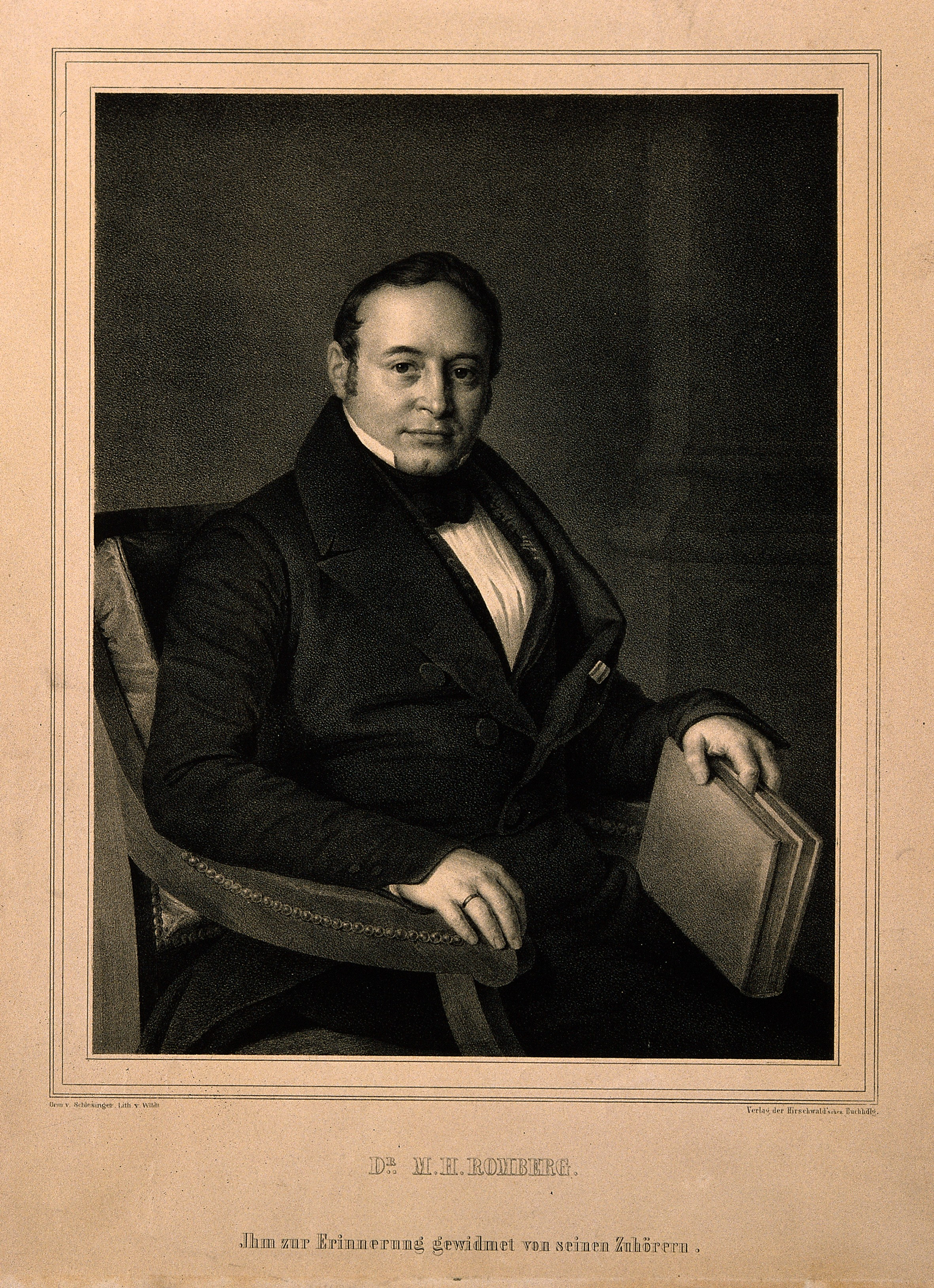 Portrait of Dr M H Romberg (1795 – 1873), German physician Iconographic Collections Keywords: Moritz Heinrich Romberg; Johann Jakob Schlesinger